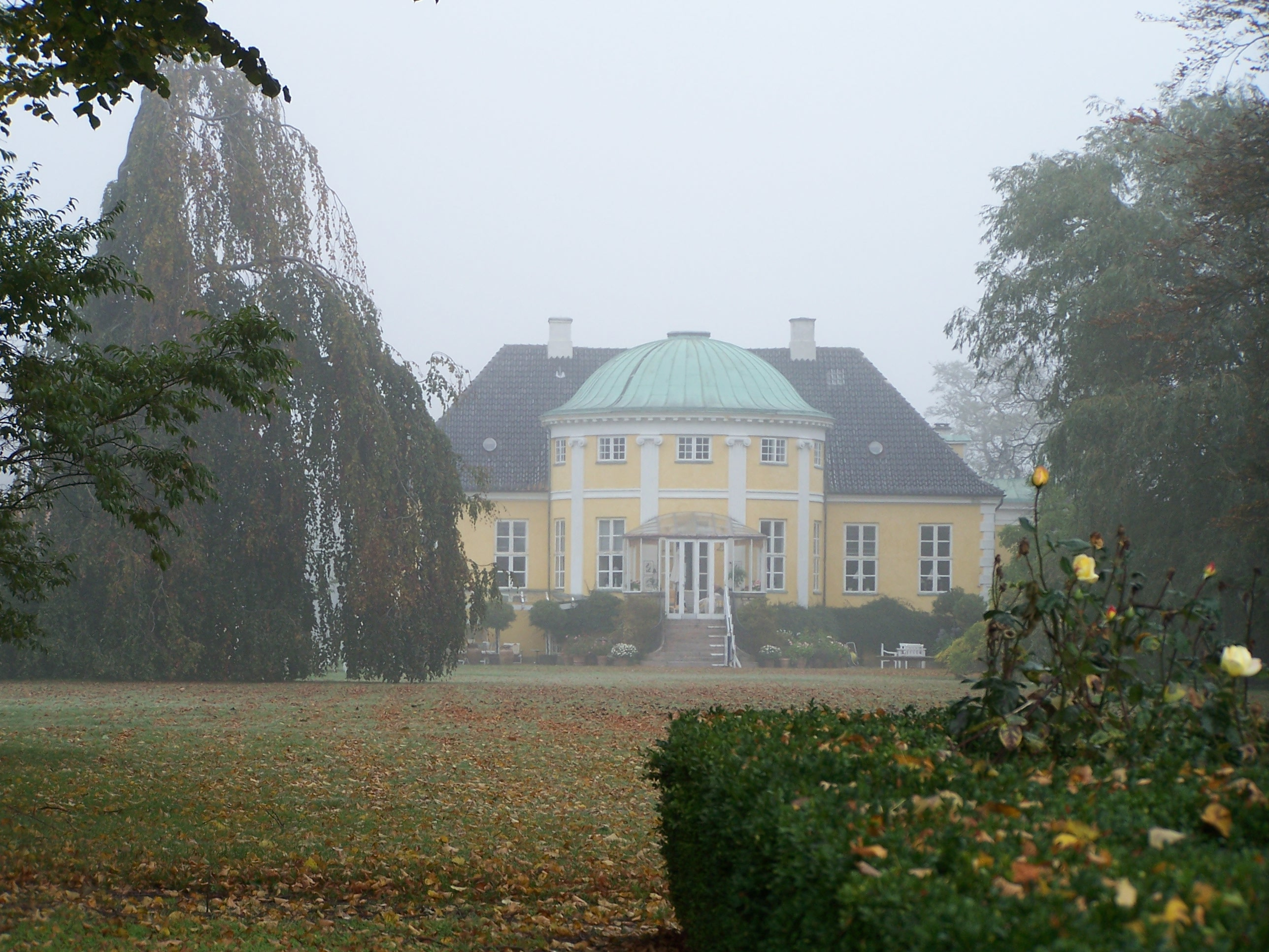 Frydenlund palace in Vedbæk, Denmarj